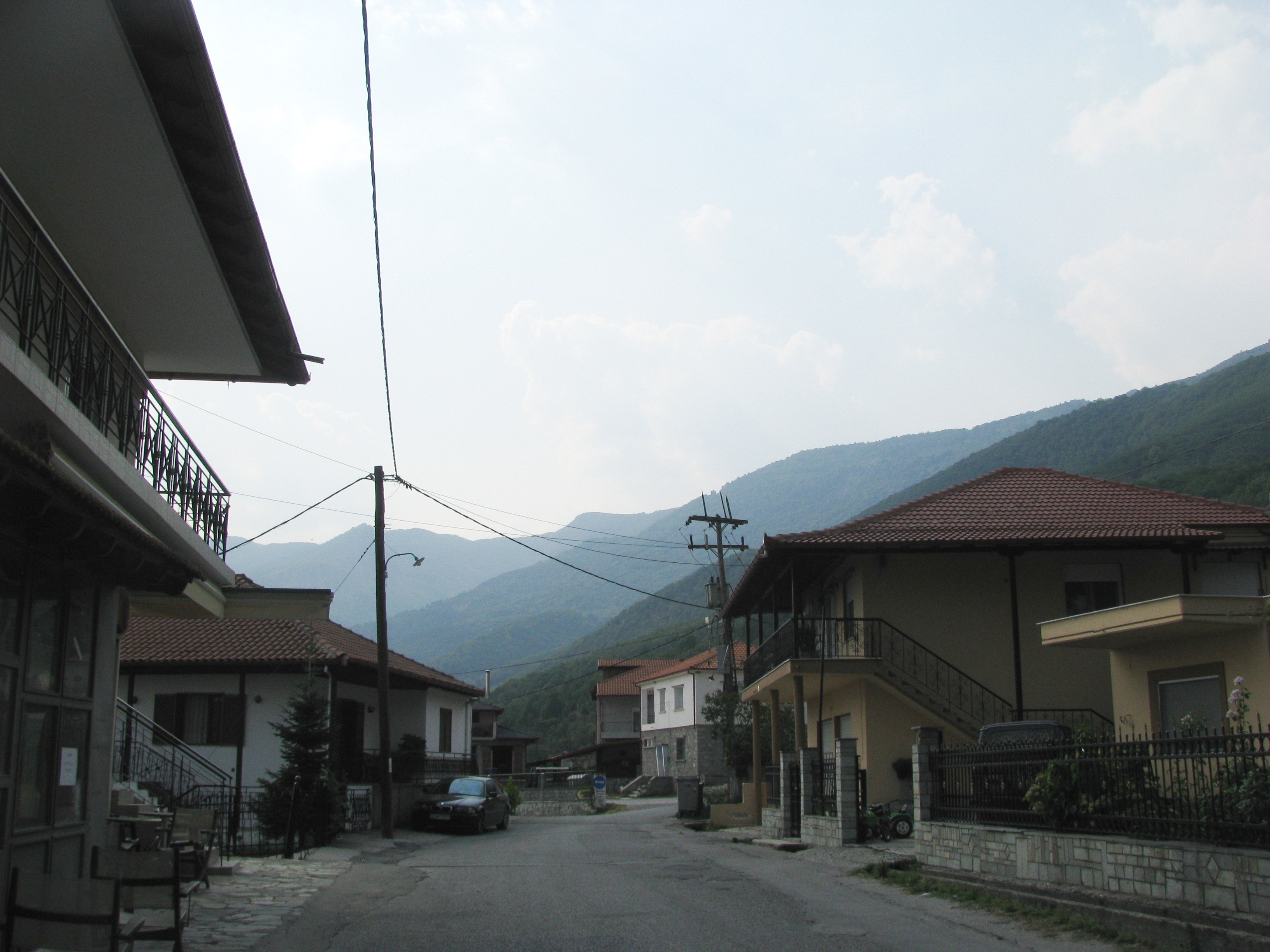 Zhervi, Zervi, Greece